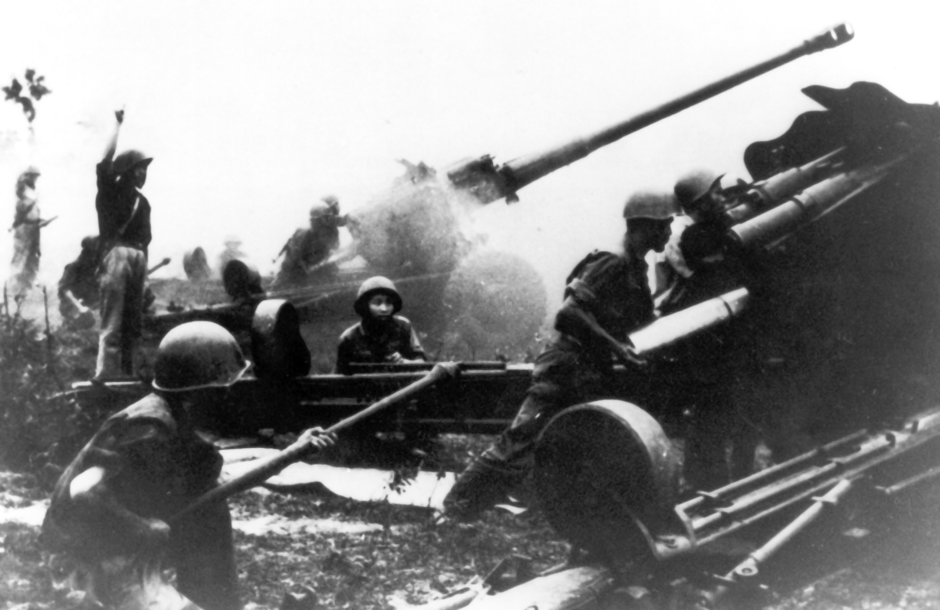 From Joel D. Meyerson, Images of a Lengthy War. Washington DC: US Army Center of Military History, 1986.